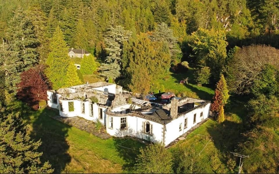 Photograph of Boleskine House from drone footage taken by Aaron Sneddon, Aerial Scotland